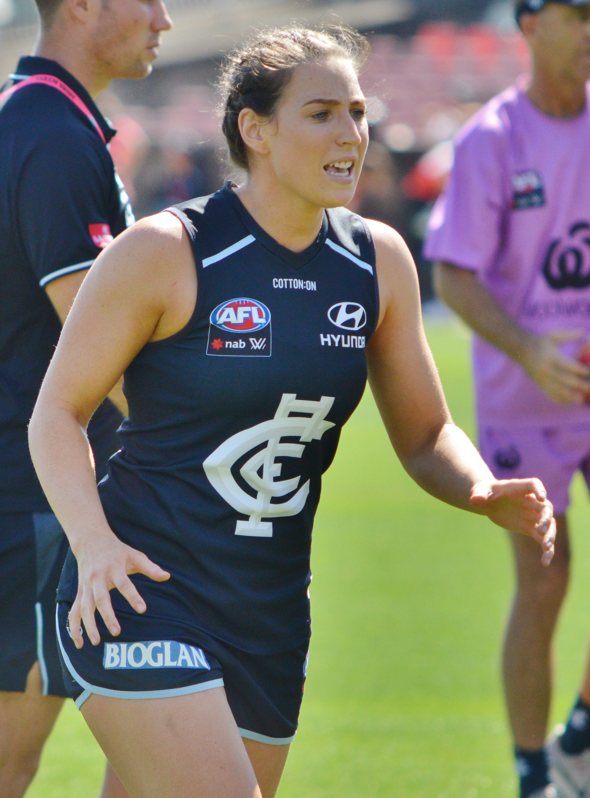 Amelia Mullane with Carlton during a preliminary final against Fremantle at Ikon Park in March 2019.